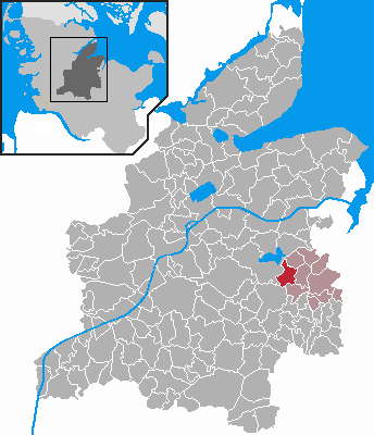 Locator maps of municipalities in Schleswig-Holstein - District Rendsburg-Eckernförde